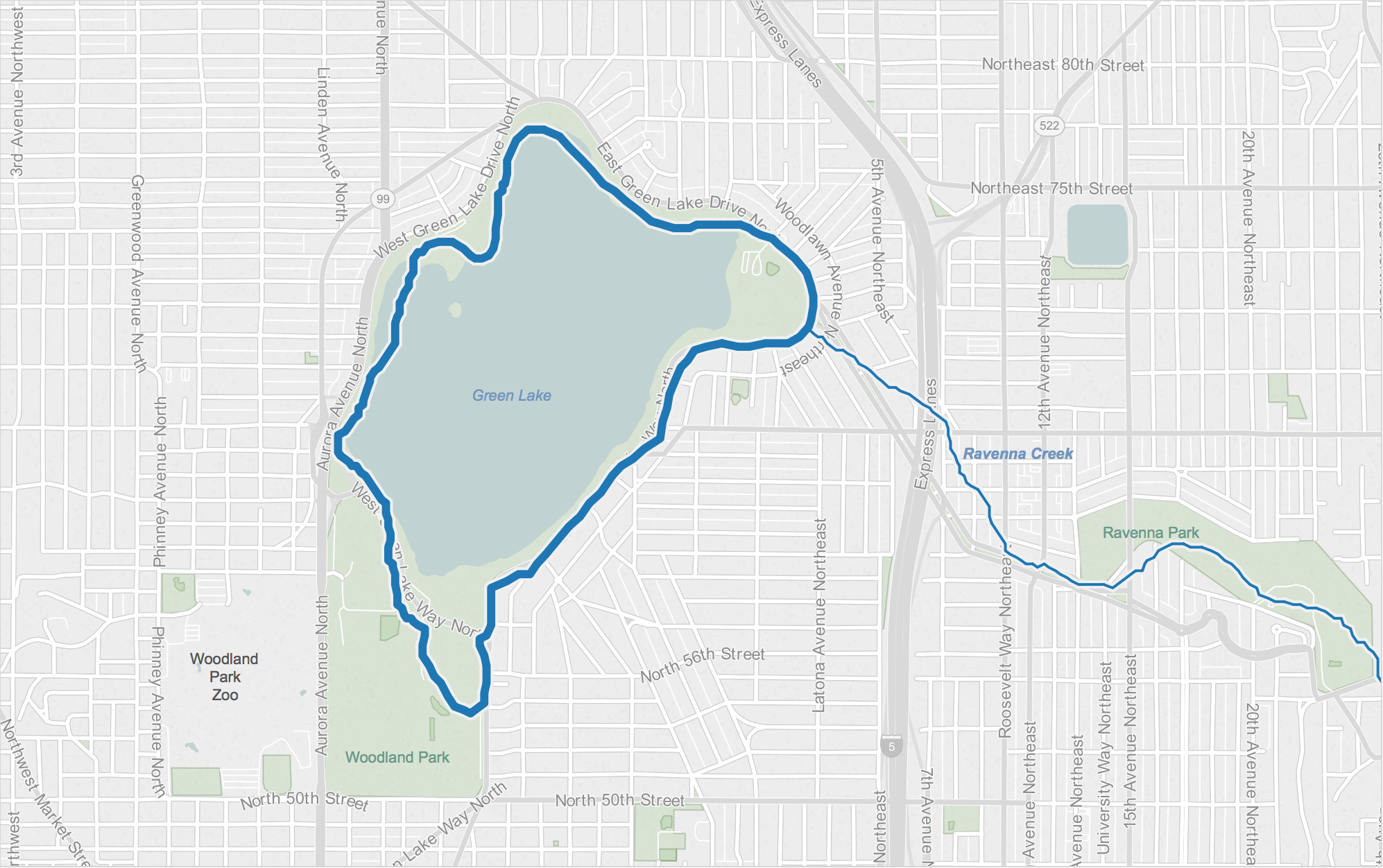 Map of Green Lake in 2015 with the shoreline of the lake in 1911 overlain, showing size of lake before water level was lowered 7 feet. Also shows location of Ravenna Creek in 1911. Based on File:Map of Seattle 1914.jpg.